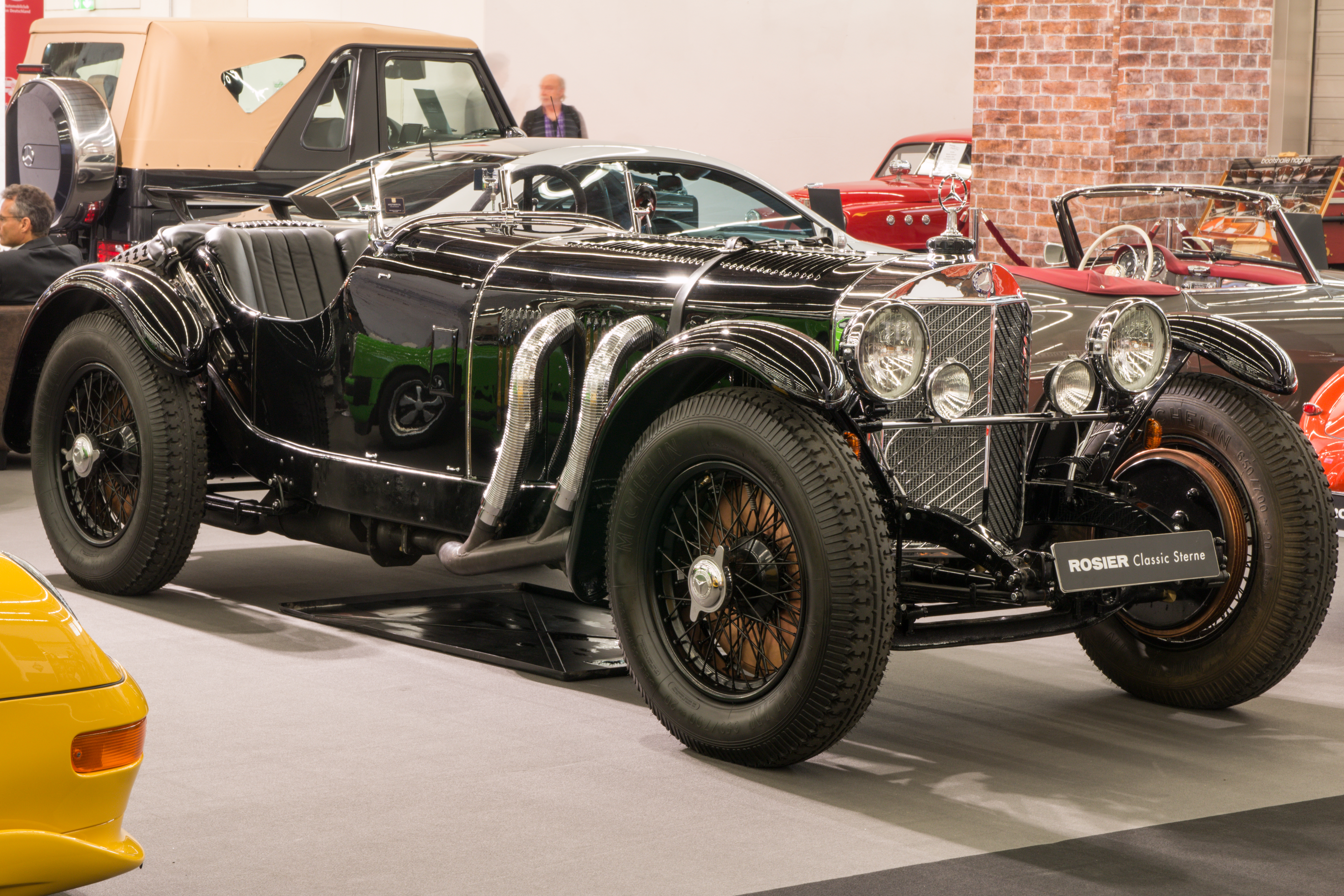 Mercedes-Benz W 06 SSK